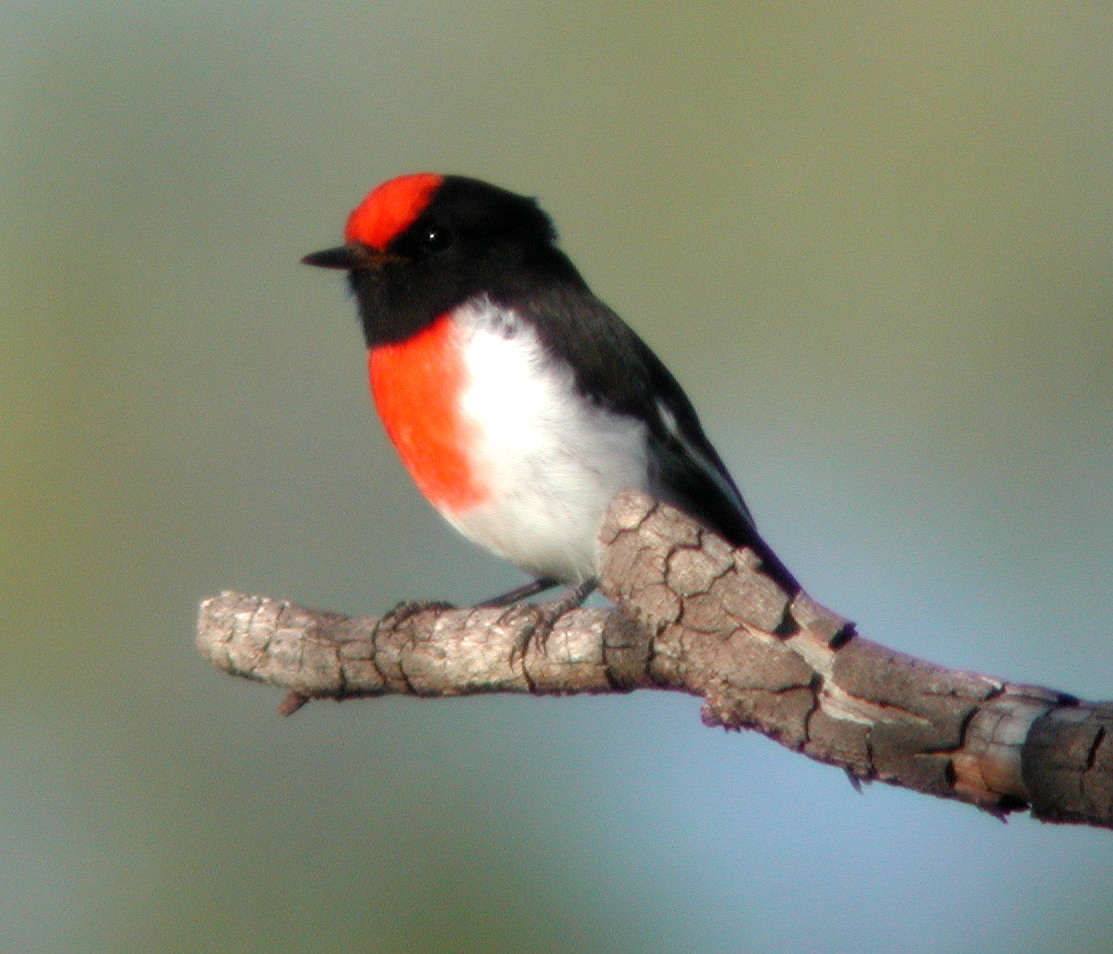 Red-capped Robin (Petroica goodenovii) Mulga View, SW Queensland, Australia